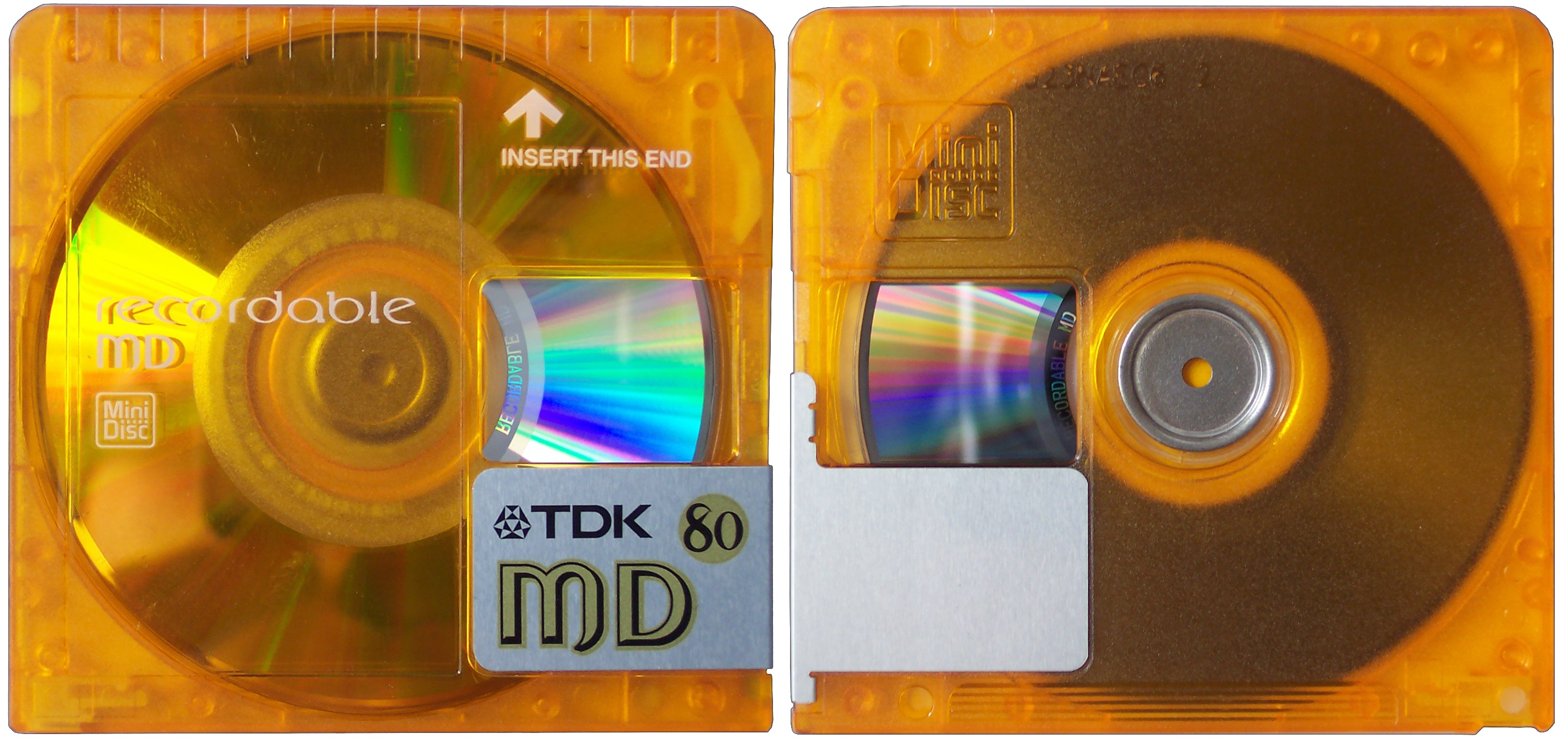 A 80 mins TDK MD with opened slider